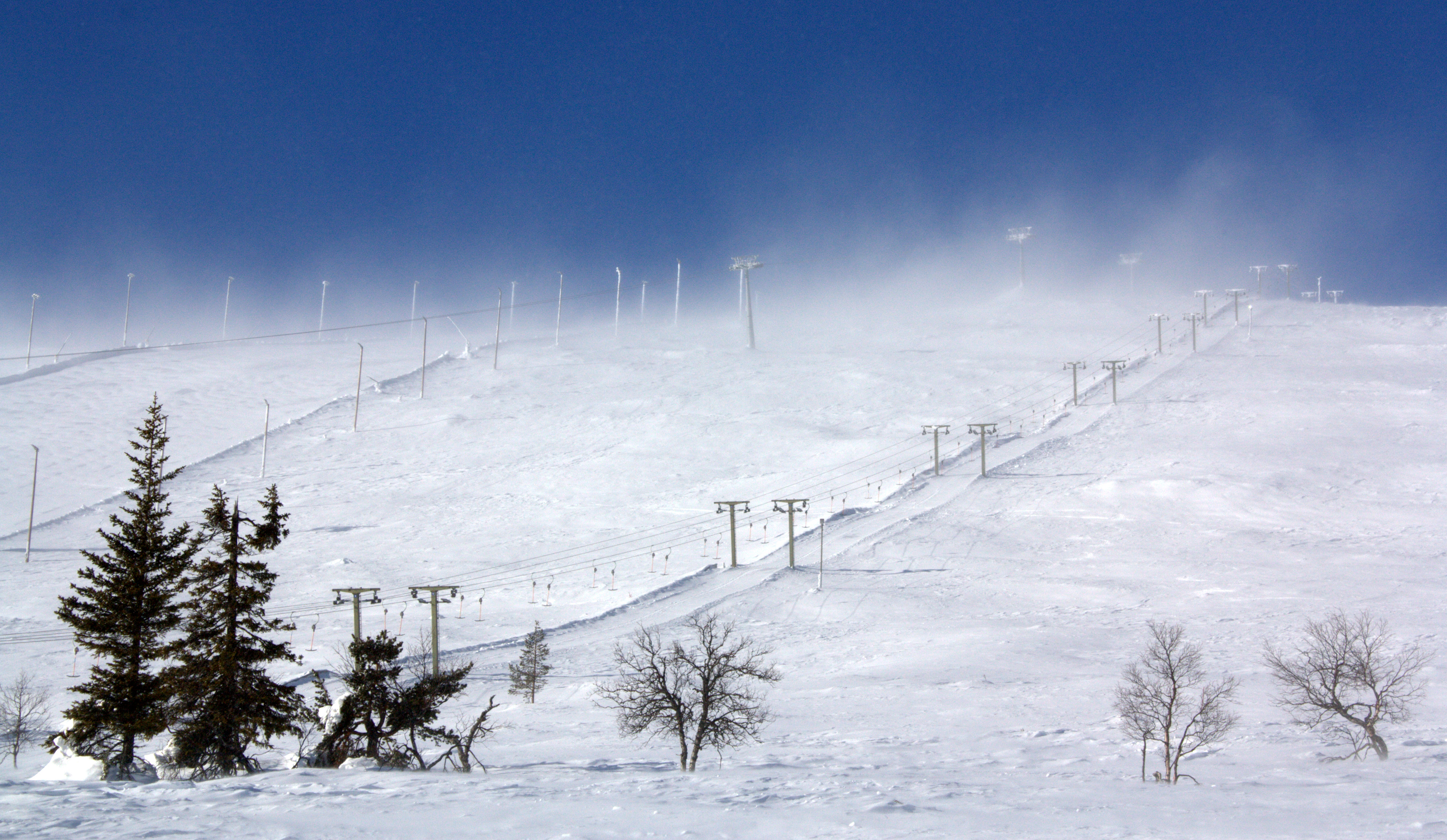 Slopes of the Sport Resort Ylläs (aka Iso-Ylläs) in Yllästunturi.